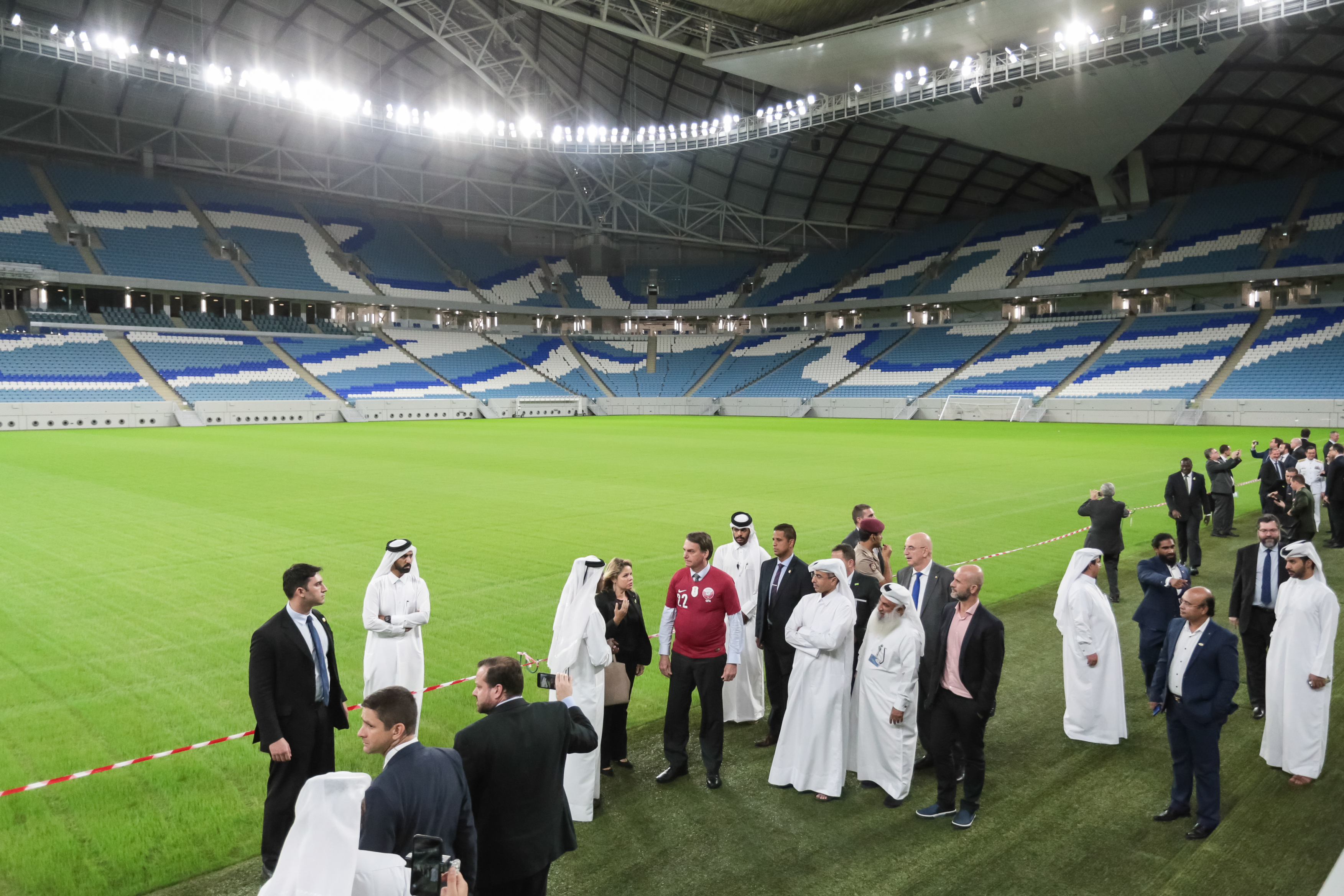 President of the Republic, Jair Bolsonaro during the visit to the soccer stadium of Al Janoub.